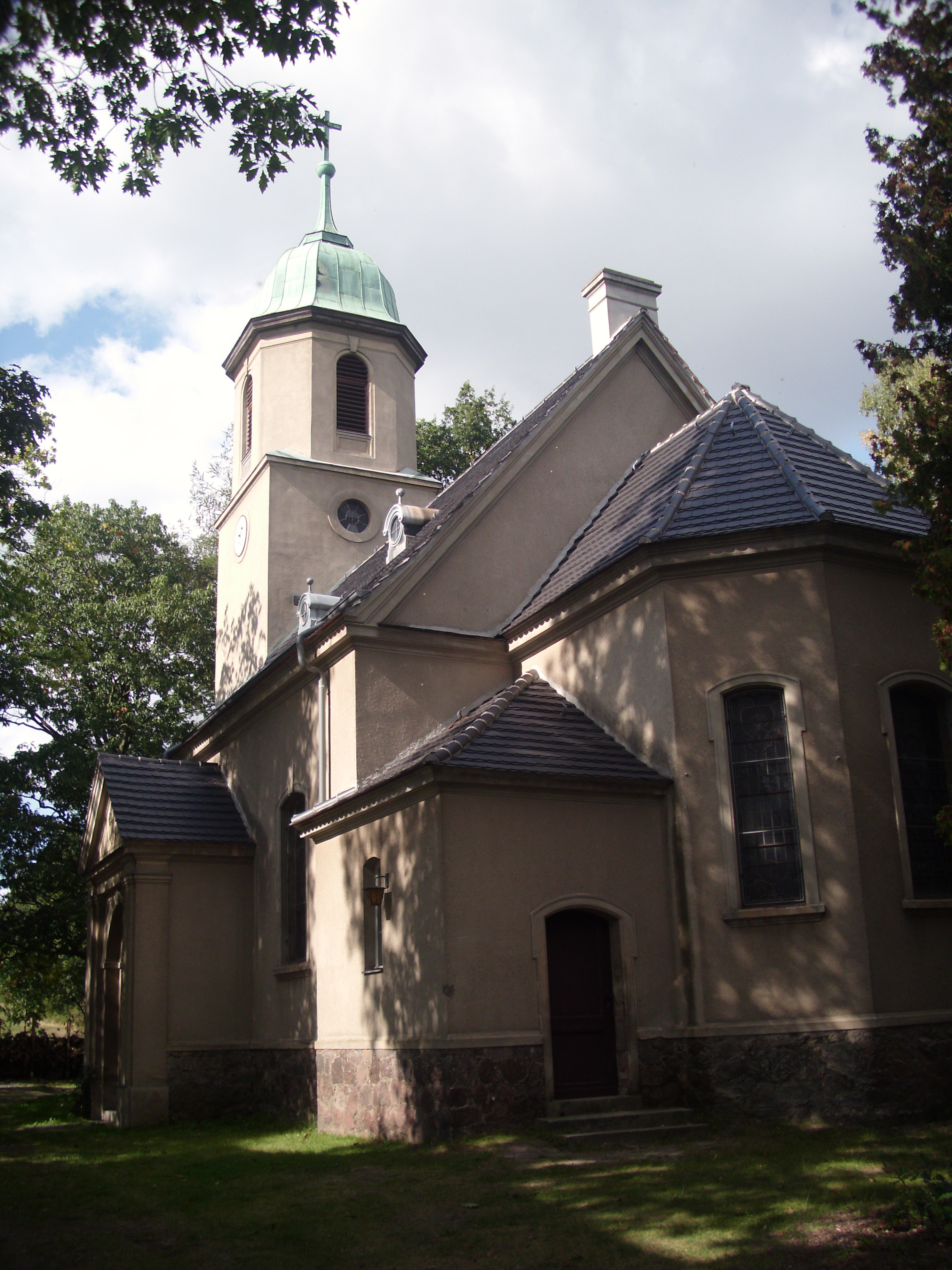 Village church in Rosengarten, part of Rosengarten/Pagram, borough of Frankfurt (Oder), Brandenburg, Germany